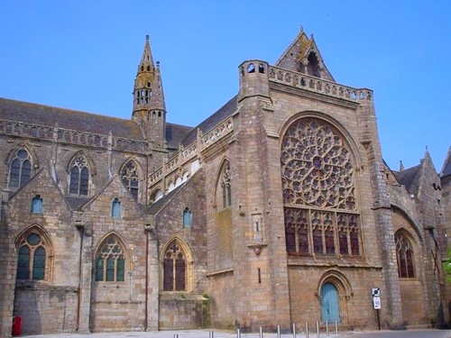 Cathedral Saint-Paul Aurélien in Saint-Pol-de-Léon, France.